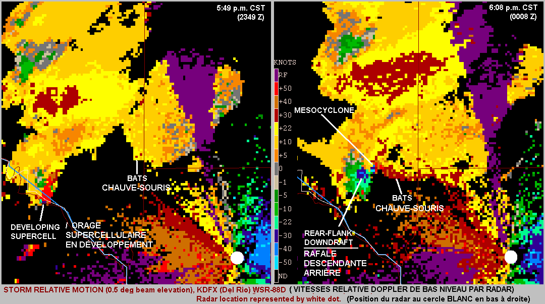 In South Texas, bats caught up in the environment around a large and dangerous thunderstorm. This happened in the early evening of 19 March 2006, as part of a swarm of bats was overtaken by a tornado-warned supercell over eastern Val Verde County and southwestern Edwards County. Doppler velocities on radar shows that the bats are moving toward the storm, deadly encouter.